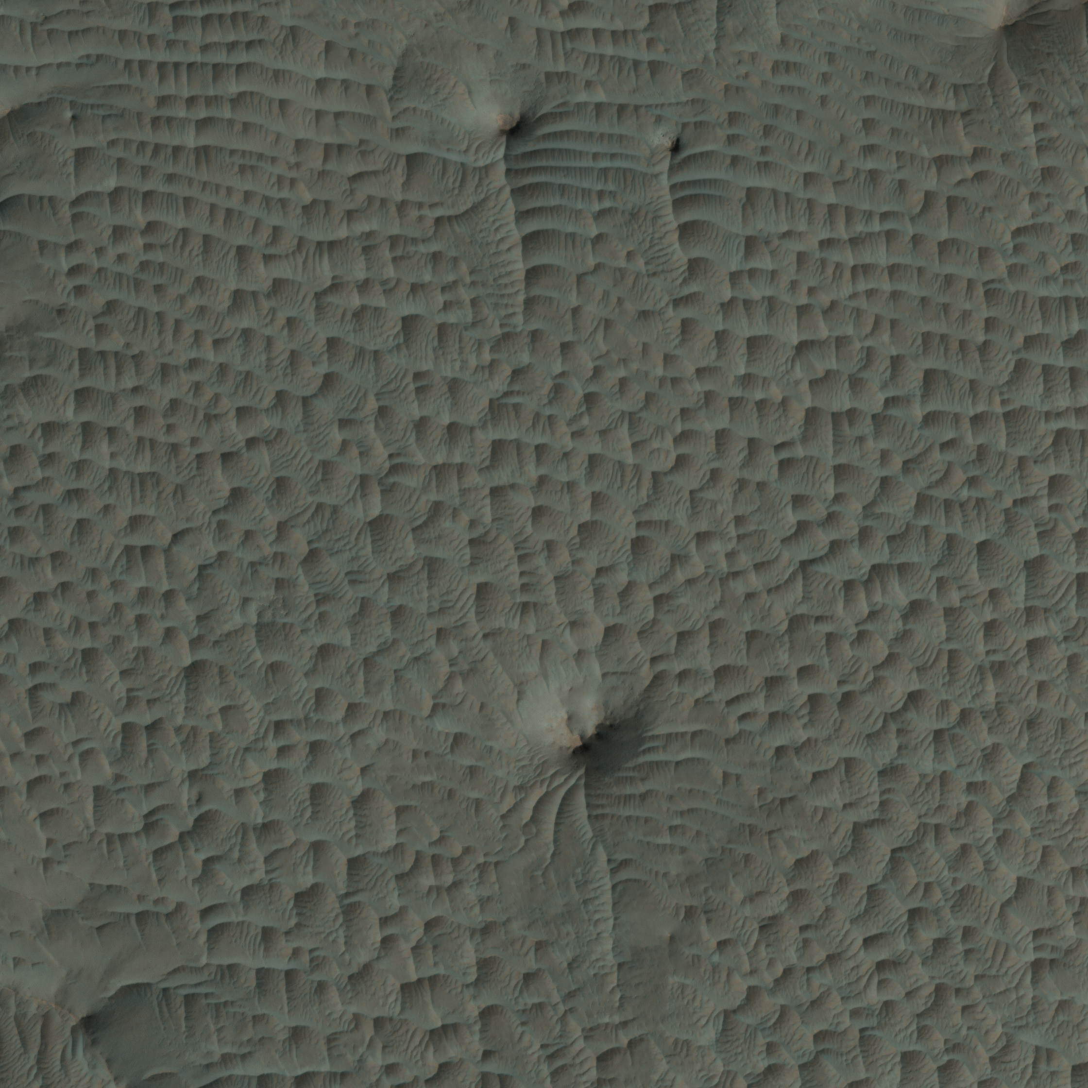 A field of ripples in Aurorae Chaos on Mars imaged by the HiRISE instrument aboard the Mars Reconnaissance Orbiter. The image resolution is 27.0 cm per pixel.